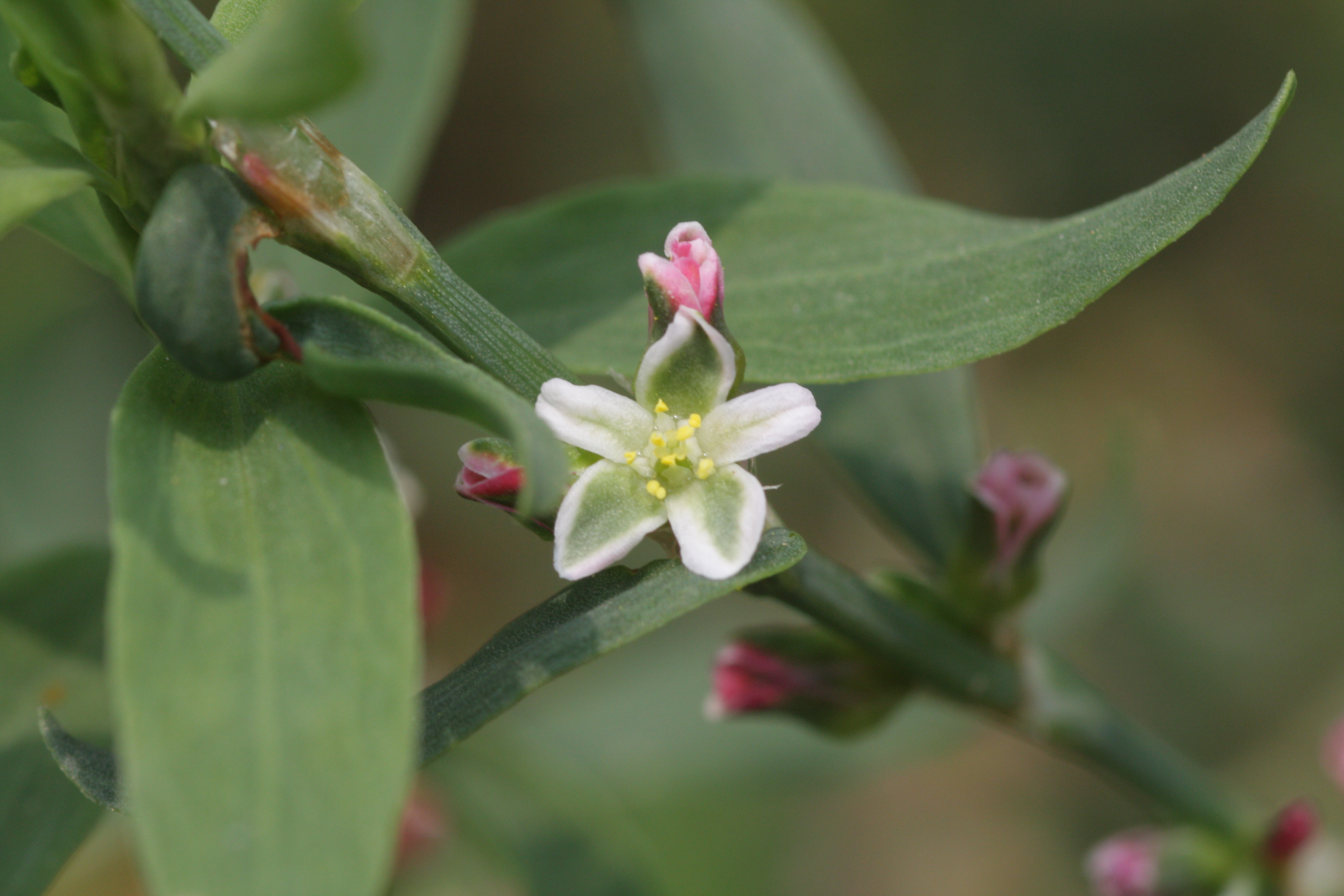 Polygonum aviculare